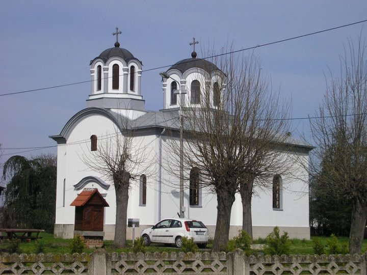 This is photo of Ortodox Church i Ljubinic village.